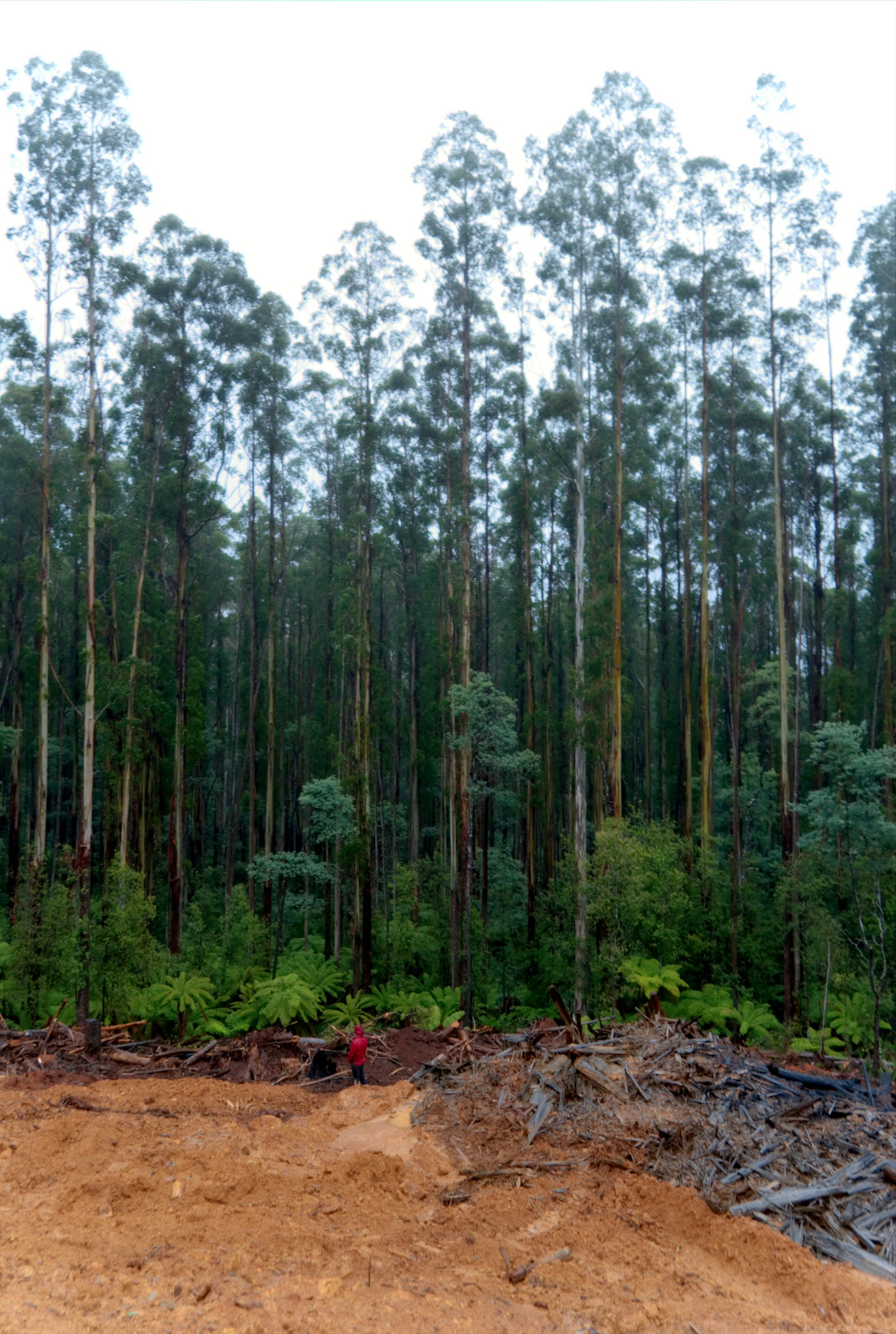 Uniform trees in Victoria's Central Highlands, showing regrowth 69 years after the 1939 Black Friday fires. The foreground is an area devastated by recent logging.